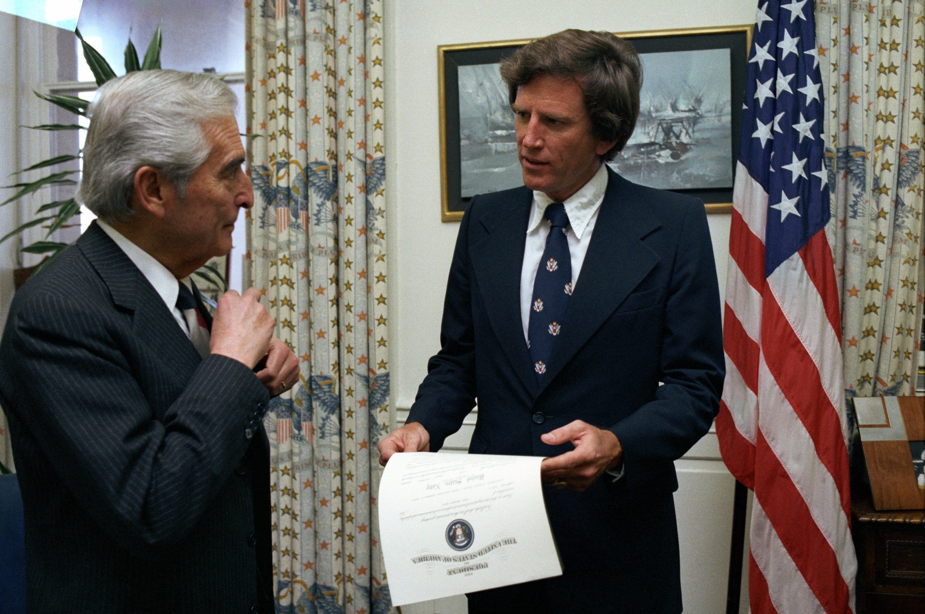 Senator Gary Hart (D-CO) accepts his commissioning papers from Secretary of the Navy Edward Hidalgo, left, after taking the oath of office as a commissioned officer in the US Naval Reserve.